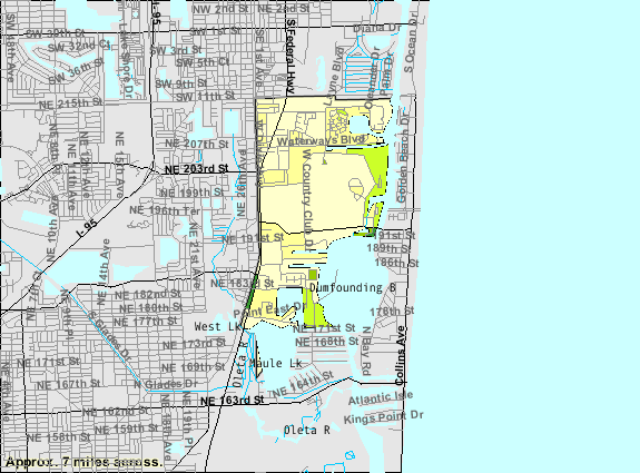 map of Aventura, Florida showing city limits